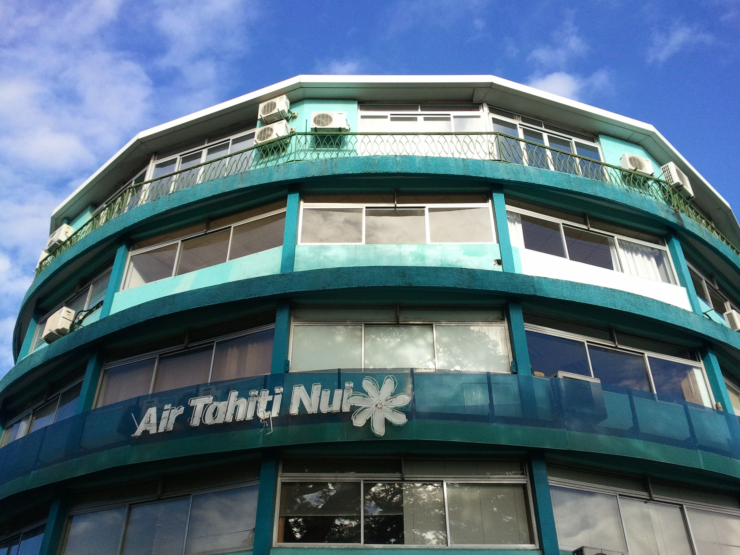 Immeuble Dexter, the head office of Air Tahiti Nui - Pont de L’Est, Papeete